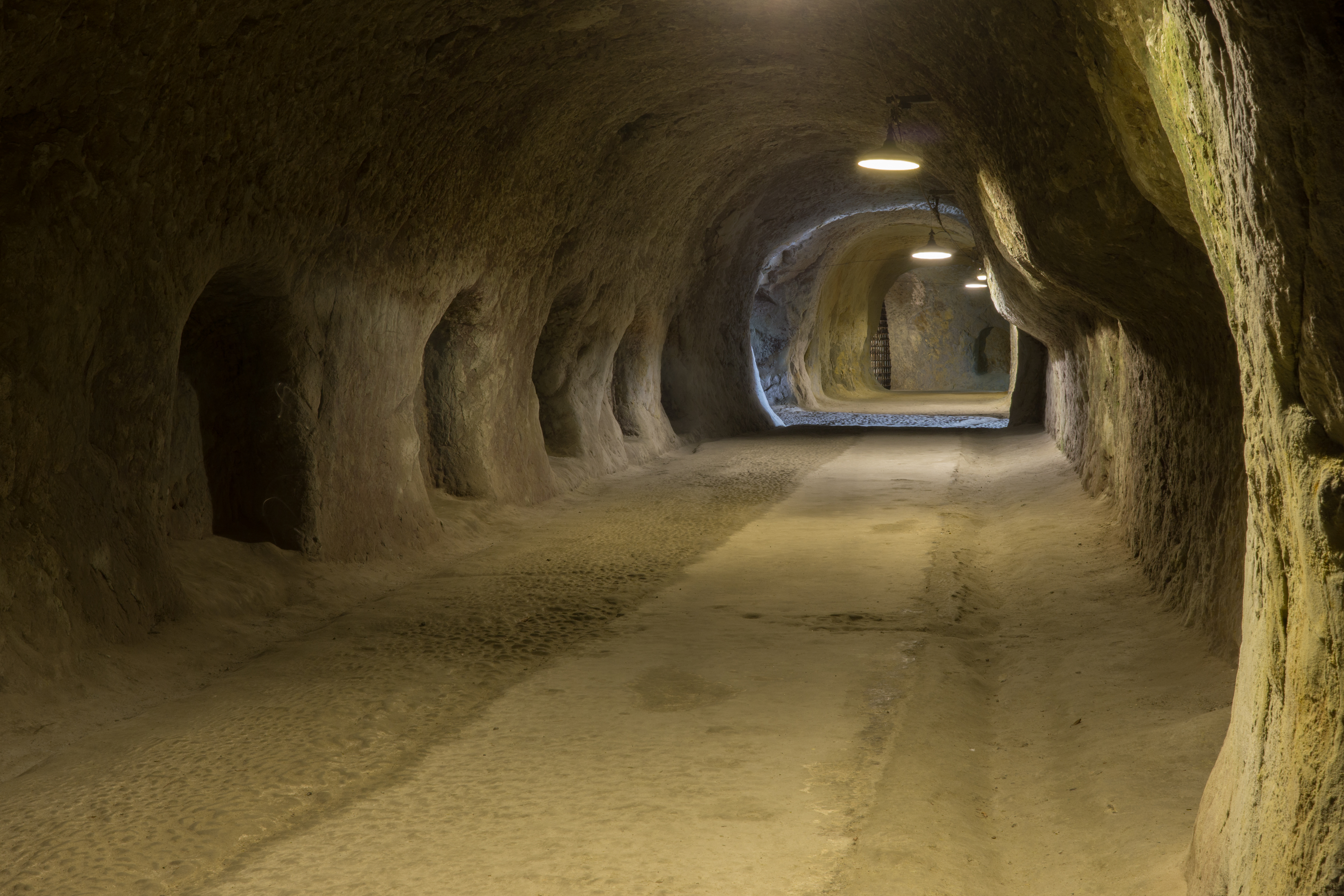 Yoshimi Hundred Caves. This is area where WWII times tunnels were extended to fit underground aircraft engine factory for Nakajima Aircraft Company. Shot long exposure using Sony A7s camera and tripod